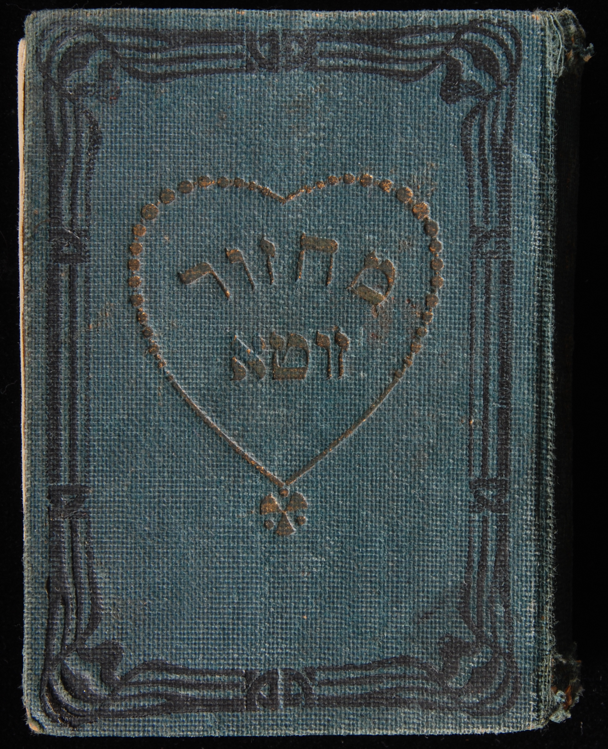 1911 machzor; "מחזור זוטא"